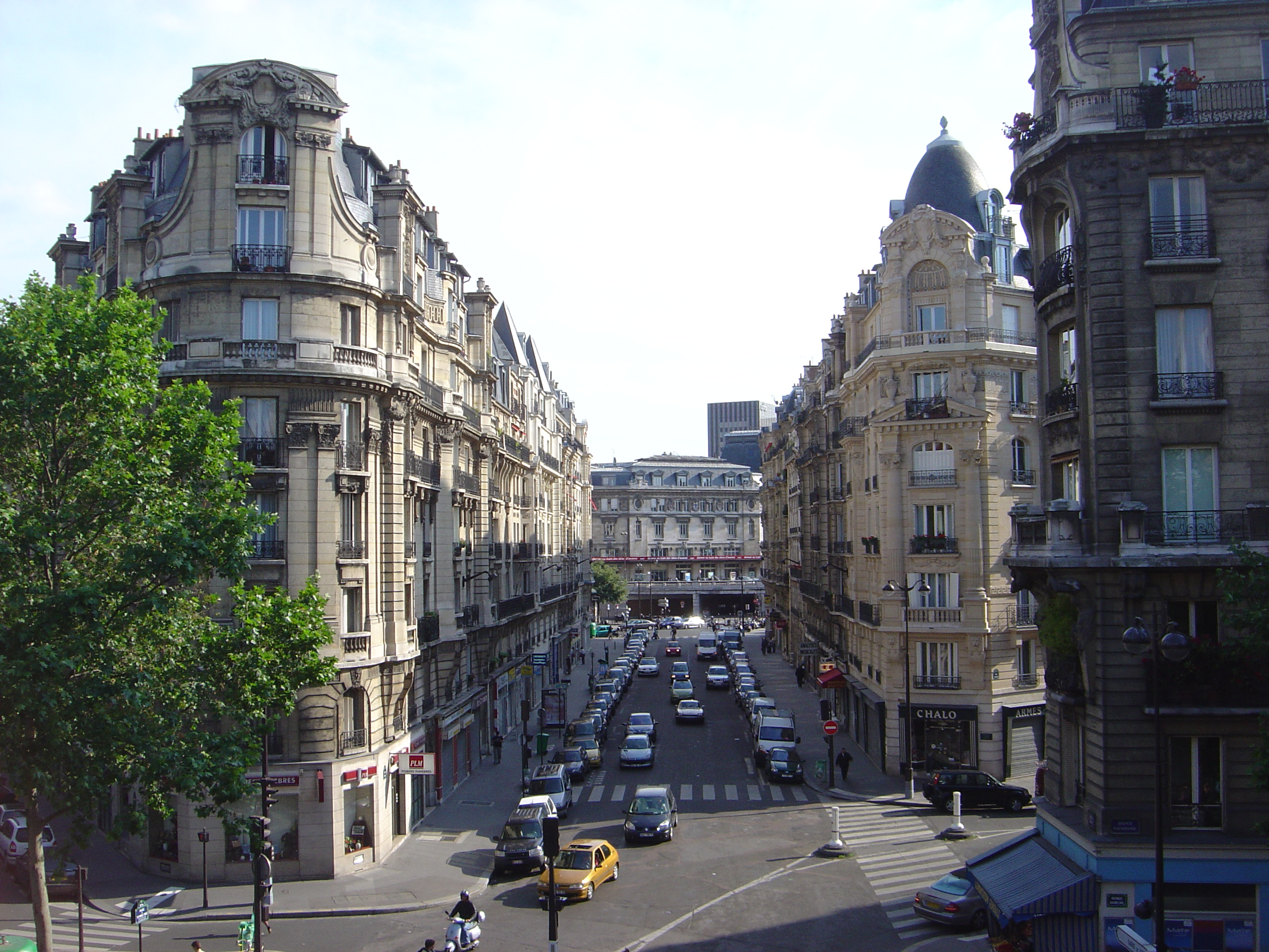 Rue Abel, leading to Paris-Gare de Lyon, seen from the Promenade plantée (former viaduct turned into a garden).